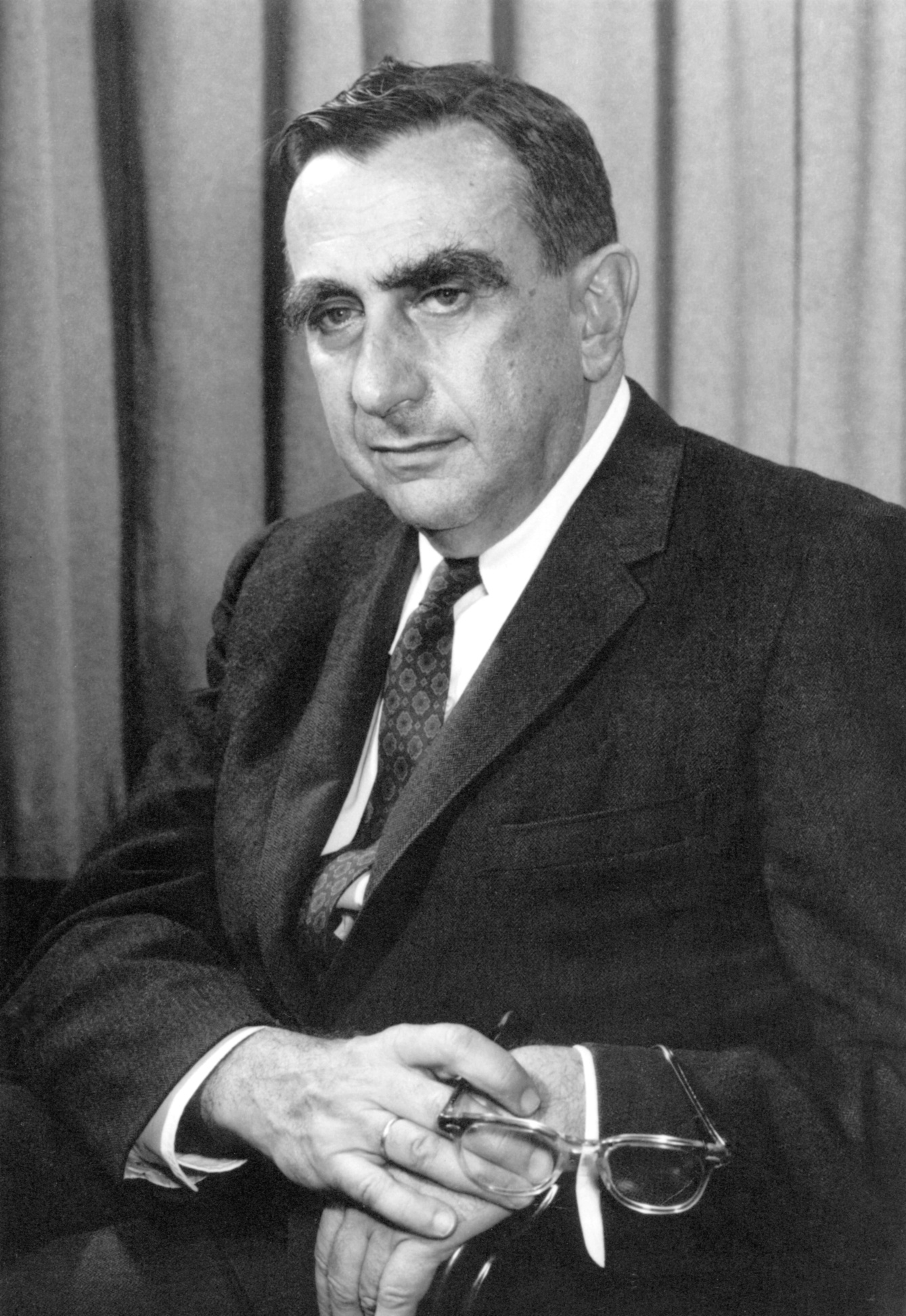 Edward Teller in 1958 as director of Lawrence Livermore National Laboratory.